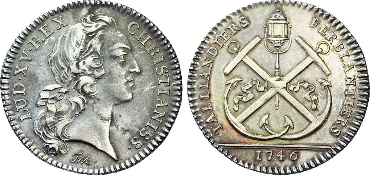 Corporation des taillandiers ferblantiers, 1746